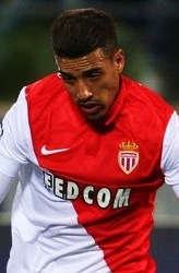 Nabil Dirar